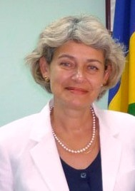 Irina Bokova, Bulgarian Ambassador to France